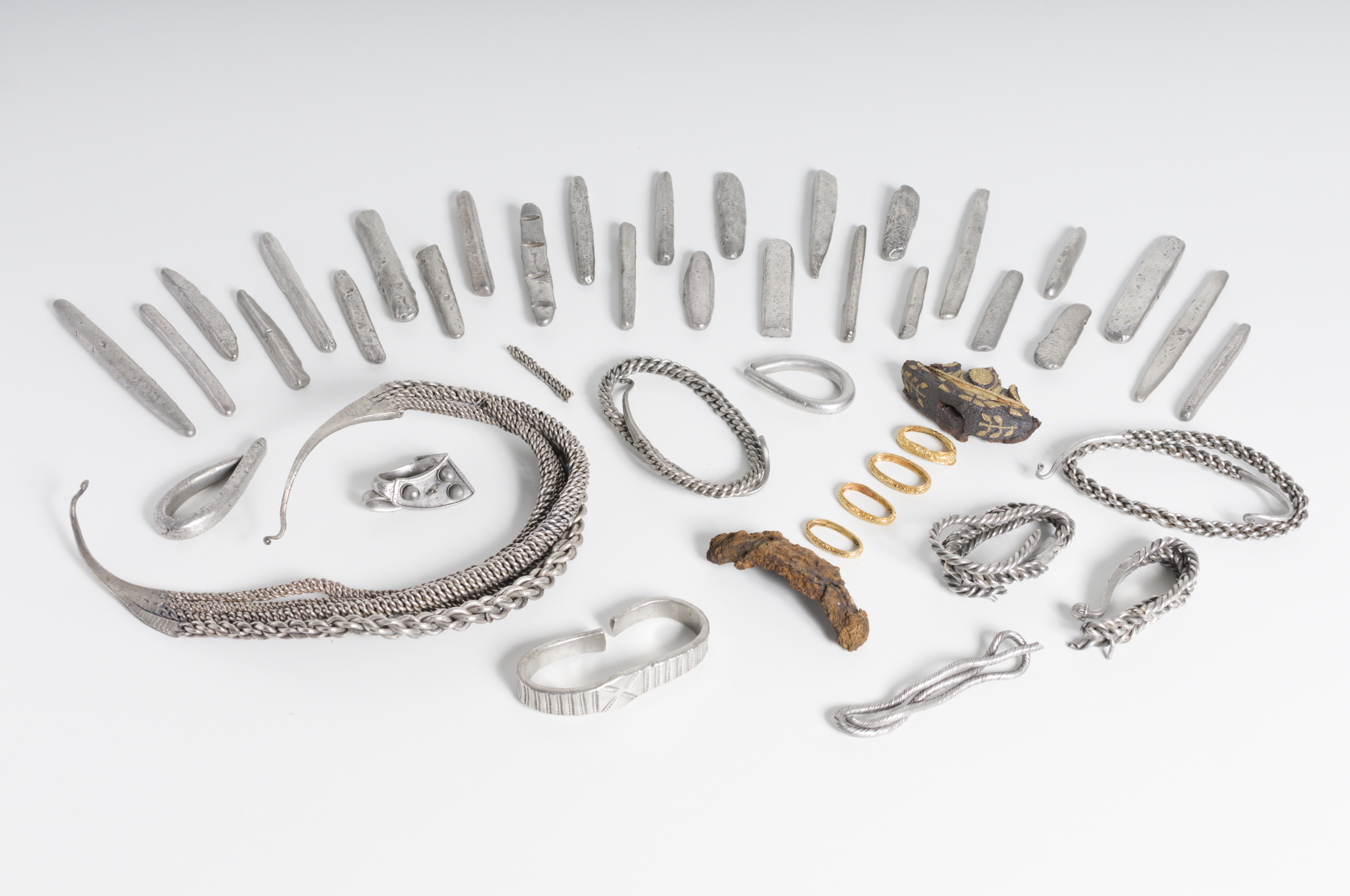 Hoard of Early Medieval metalwork from Bedale, North Yorkshire, UK. The hoard consists of ingots, neck rings, bracelets and a gold-inlaid sword pommel and fixings.